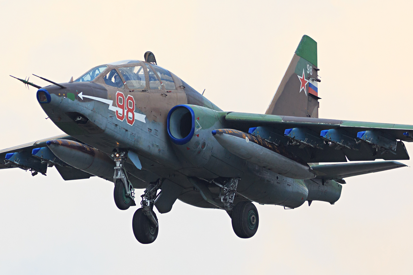 Sukhoi Su-25 of the Russian Air Force landing at Vladivostok